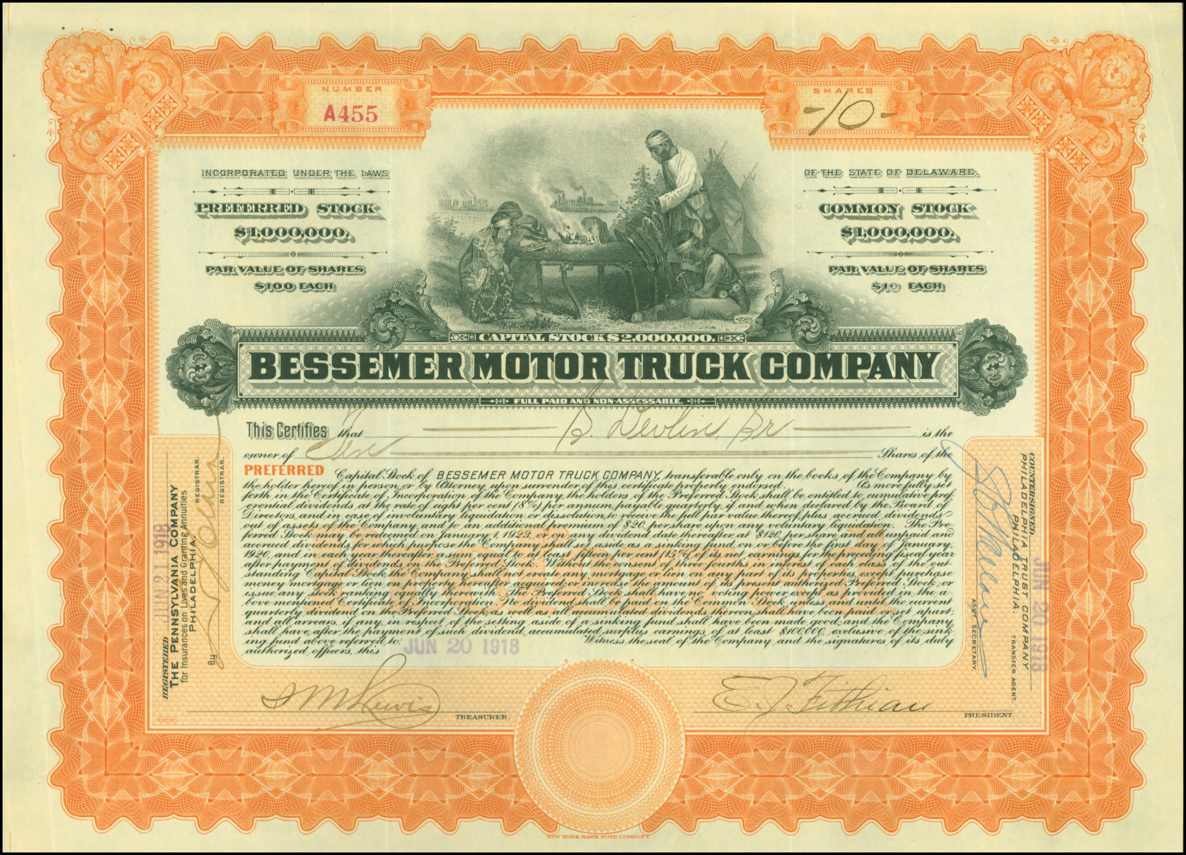 Share of the Bessemer Motor Truck Company, issued 20. June 1918